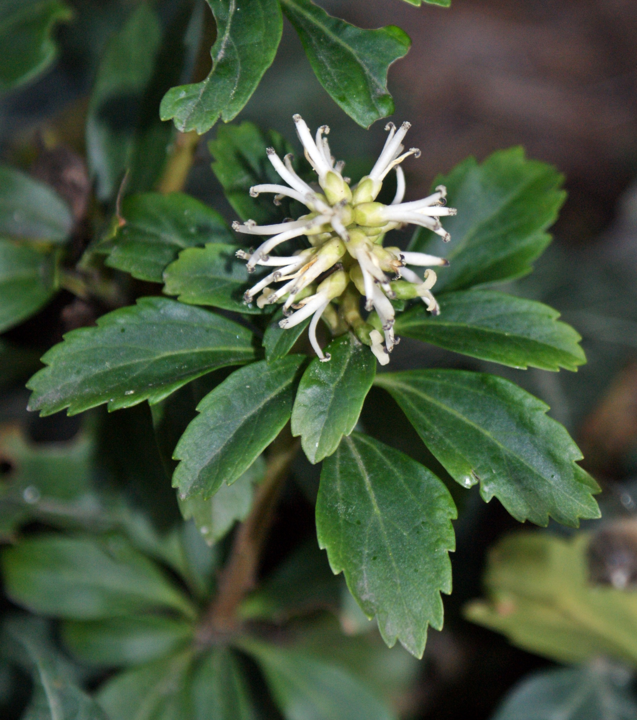 Pachysandra terminalis